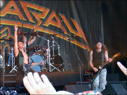 Gamma Ra playing at the Sweden Rock Festival in 2006, uncopyrighted photo taken by a close friend, 09/06/2006